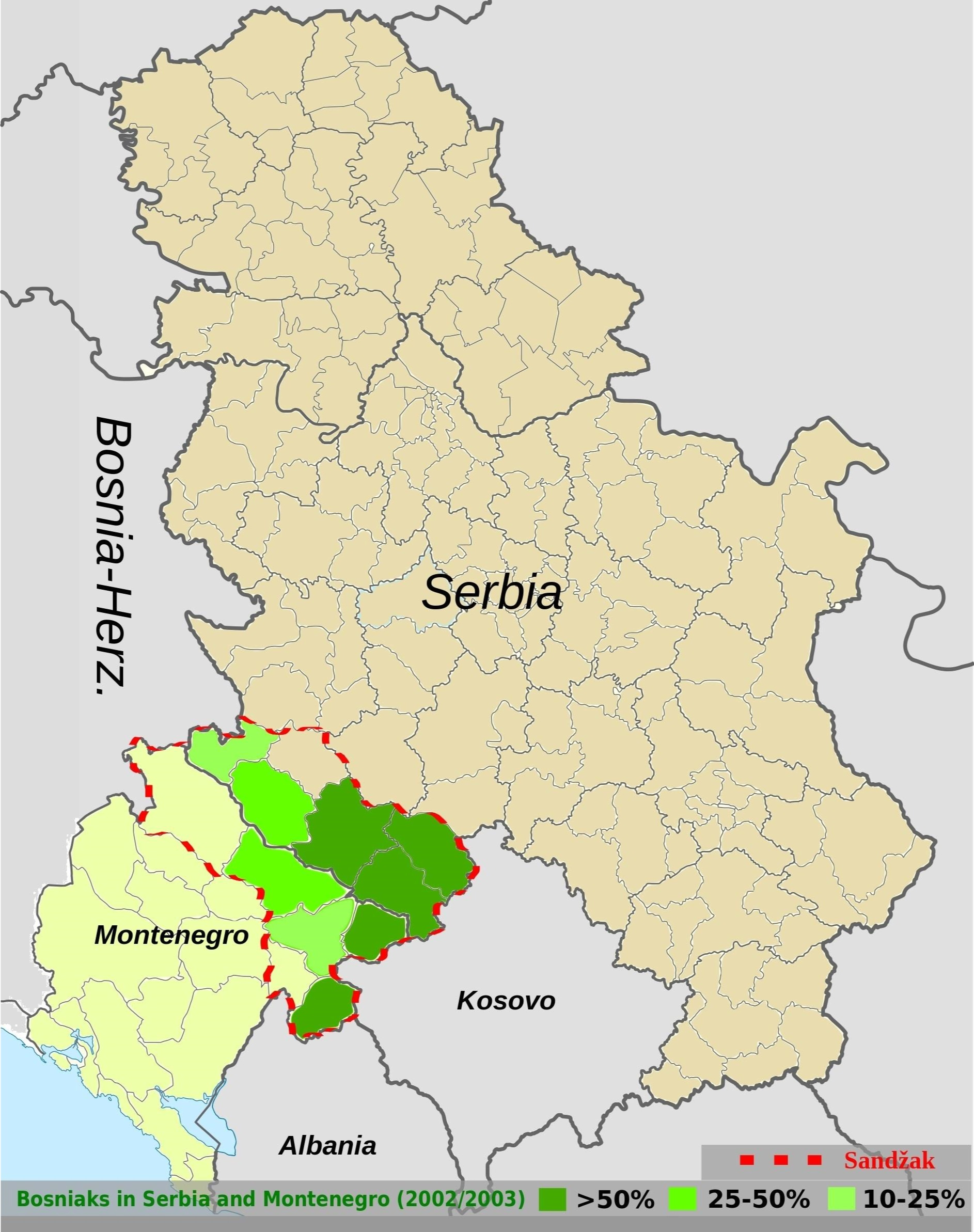 Bosniaks in Serbia and Montenegro according to population censuses held in 2002 and 2003, respectively. Statistical Office of Serbia (2003) (in serbian) Србија у бројкама 2003. (PDF), Belgrade: Statistical Office of Serbia Retrieved on 25 July 2007. Popis stanovnistva, domacinstava i stanova u 2003., STANOVNISTVO; nacionalna ili etnicka pripadnost, podaci po naseljima i opstinama, knjiga 1, Podgorica, septembar 2004 MONSTAT.